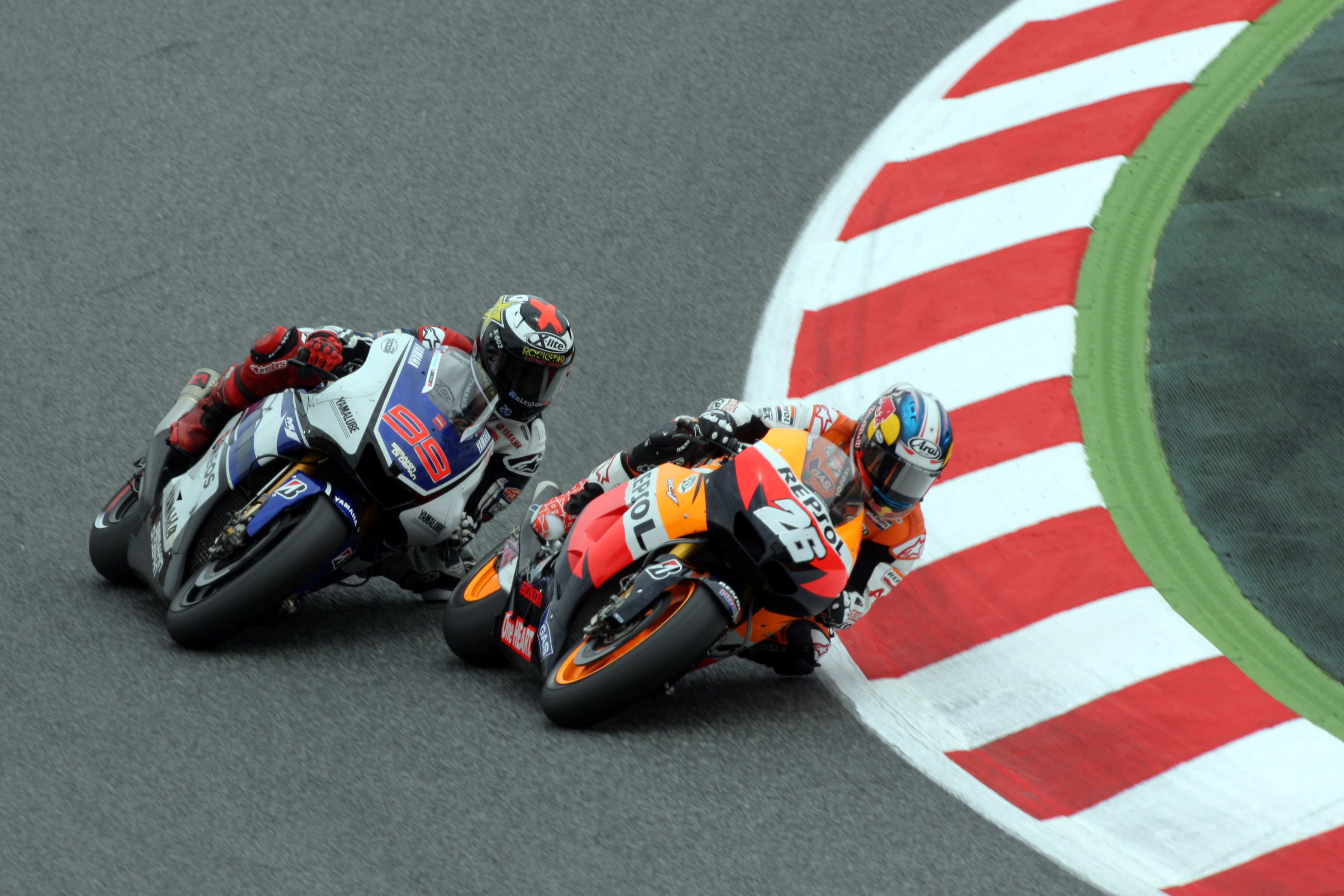 Dani Pedrosa, riding his Repsol Honda, battling with the Factory Yamaha of Jorge Lorenzo at the 2012 Catalan Grand Prix.